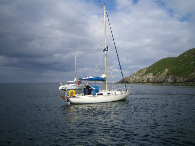 Eastern headland of Saltpan Bay, Lambay Island Yacht Contessa Julia at anchor.